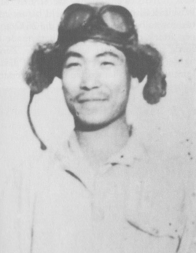 Imperial Japanese Navy fighter ace Lieutenant Kenichi Abe. He was officially credited with five solo victories in the Pacific War. This picture is of Abe during his tour with the Kanoya Air Group between April and December 1942.